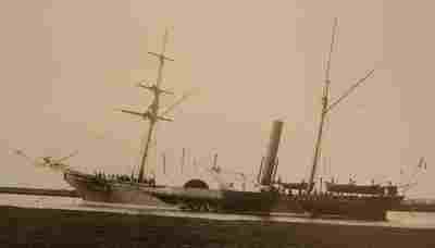 The paddel steamer Travailleur was a french explorer ship.